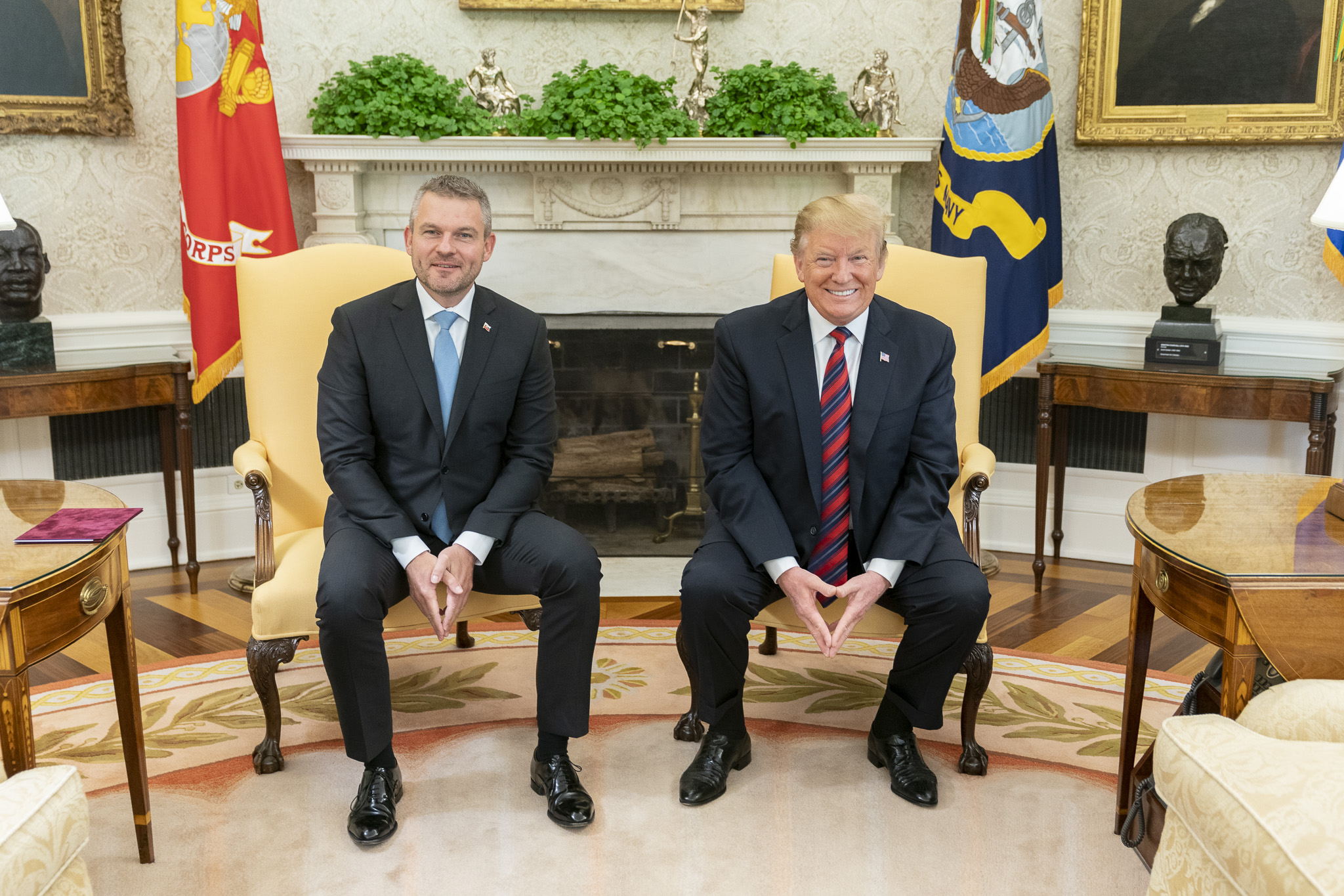 President Donald J. Trump meets with Slovak Prime Minister Peter Pellegrini Friday, May 3, 2019, 2019, in the Oval Office of the White House. (Official White House Photo by Shealah Craighead)